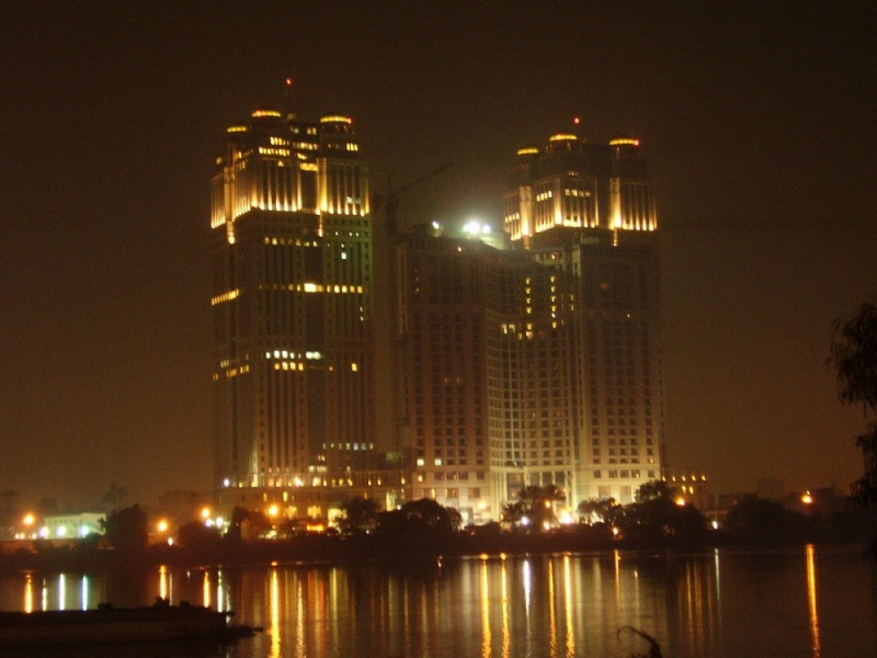 Nile City Towers, on the Nile in Cairo at night. They were completed in 2005.